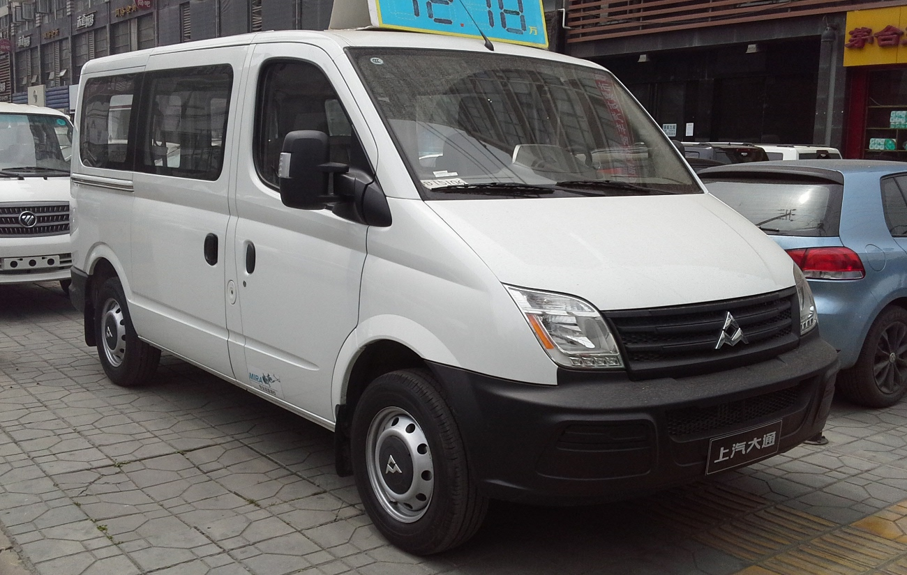 Maxus V80 photographed in Chengdu, Sichuan province, China.